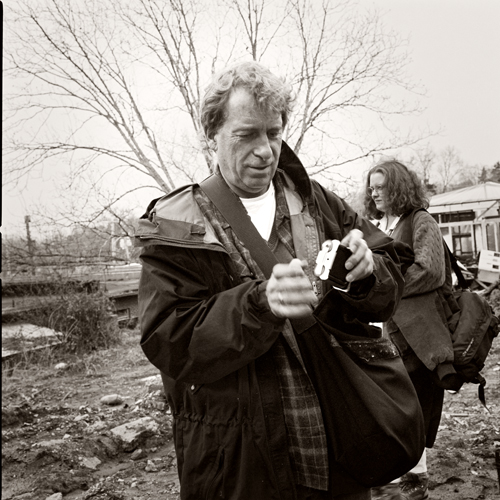 William Wegman photographed by Roy Adkins.